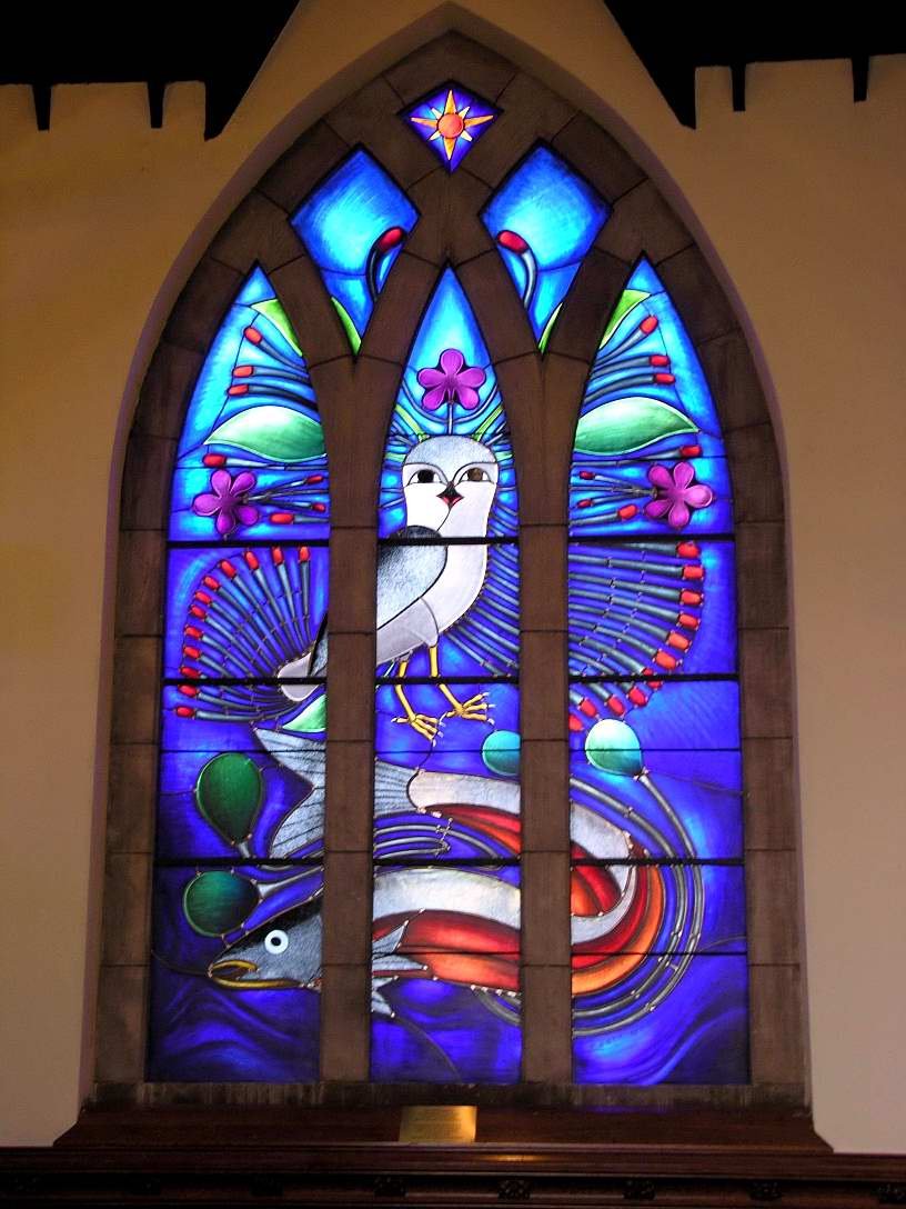 Kenojuak Ashevak: Window at John Bell Chapel of Appleby College in Oakville (Ontario) near Toronto (Canada)